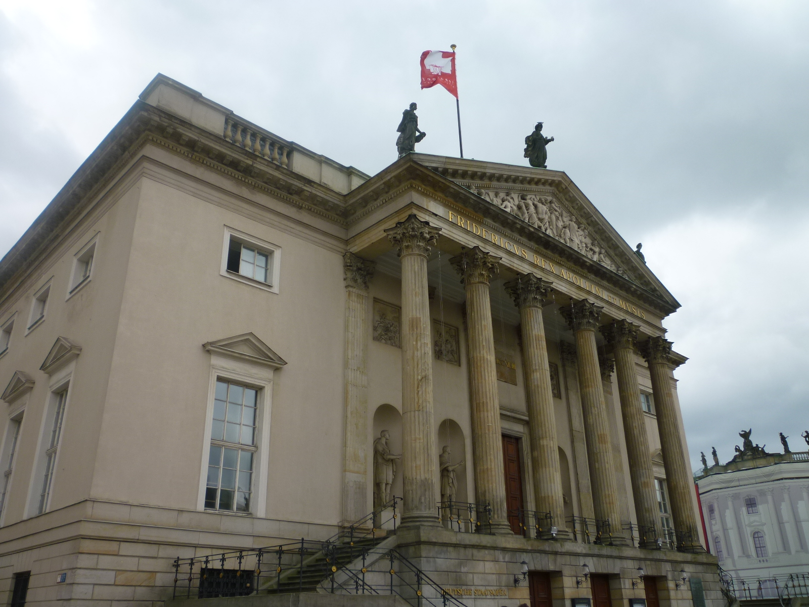 Berlin State Opera in Berlin, Germany